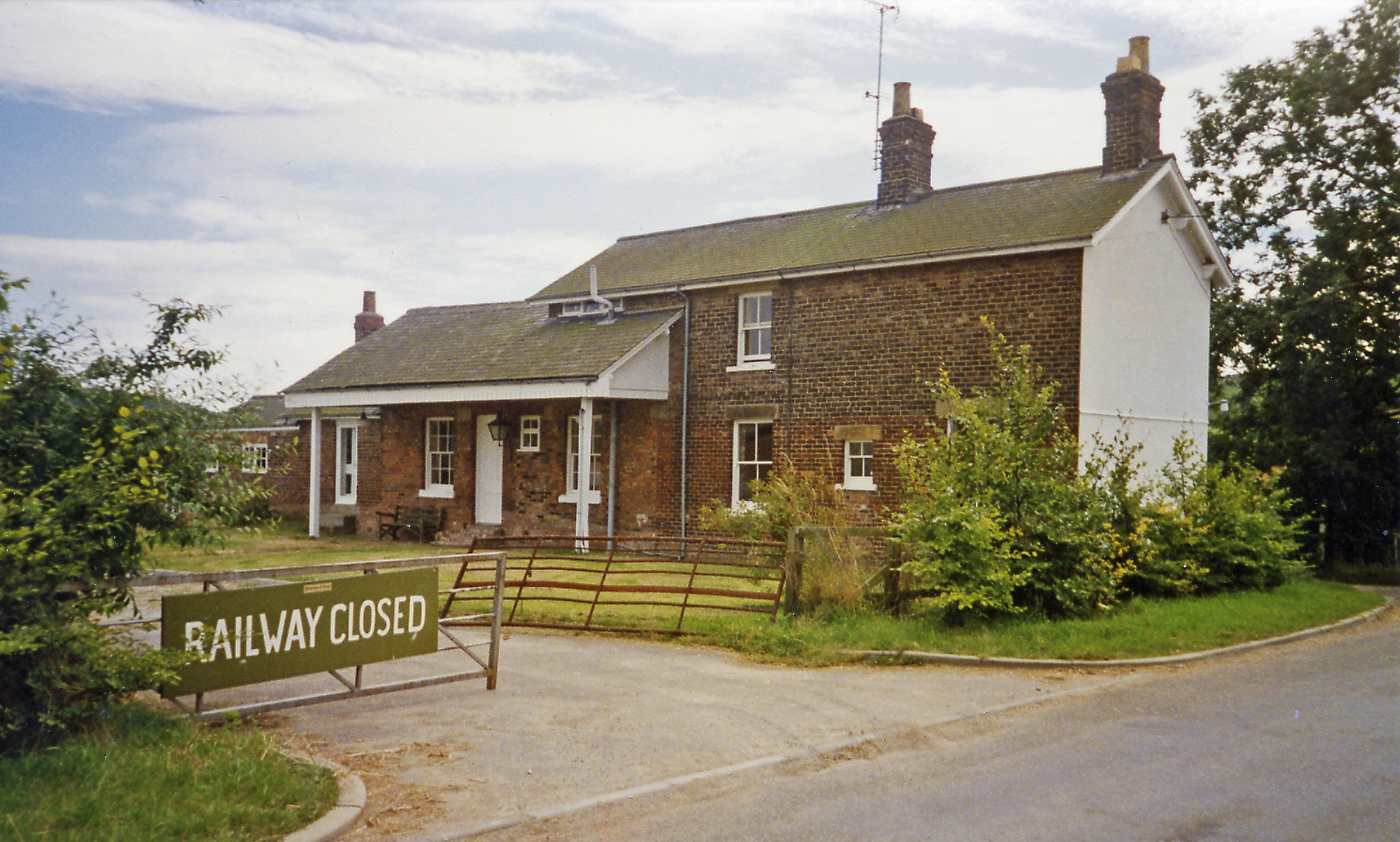 Former station at Ampleforth, 1993. The ex-NER branch from the York - Newcastle main line at Sessay Wood Junction (south of Pilmoor) - to the right - to Gilling, Pickering and Malton - to the left, crossed the road here. The station was closed from 5/6/50, but the line survived - in part for through trains to Scarborough etc. - until 2/2/53. Evidently the owner was still bothered by potential passengers 40 years later!